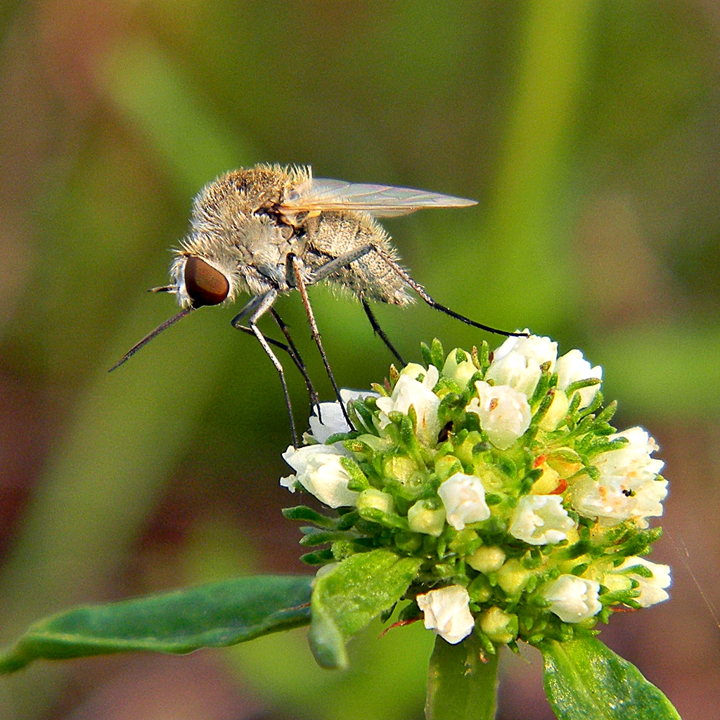 Or it may be a small Bee Fly (Geron sp.) just starting it's morning at Sweetbay Natural Area. It was very smoky that morning from the wildfires and the sun was obscured.